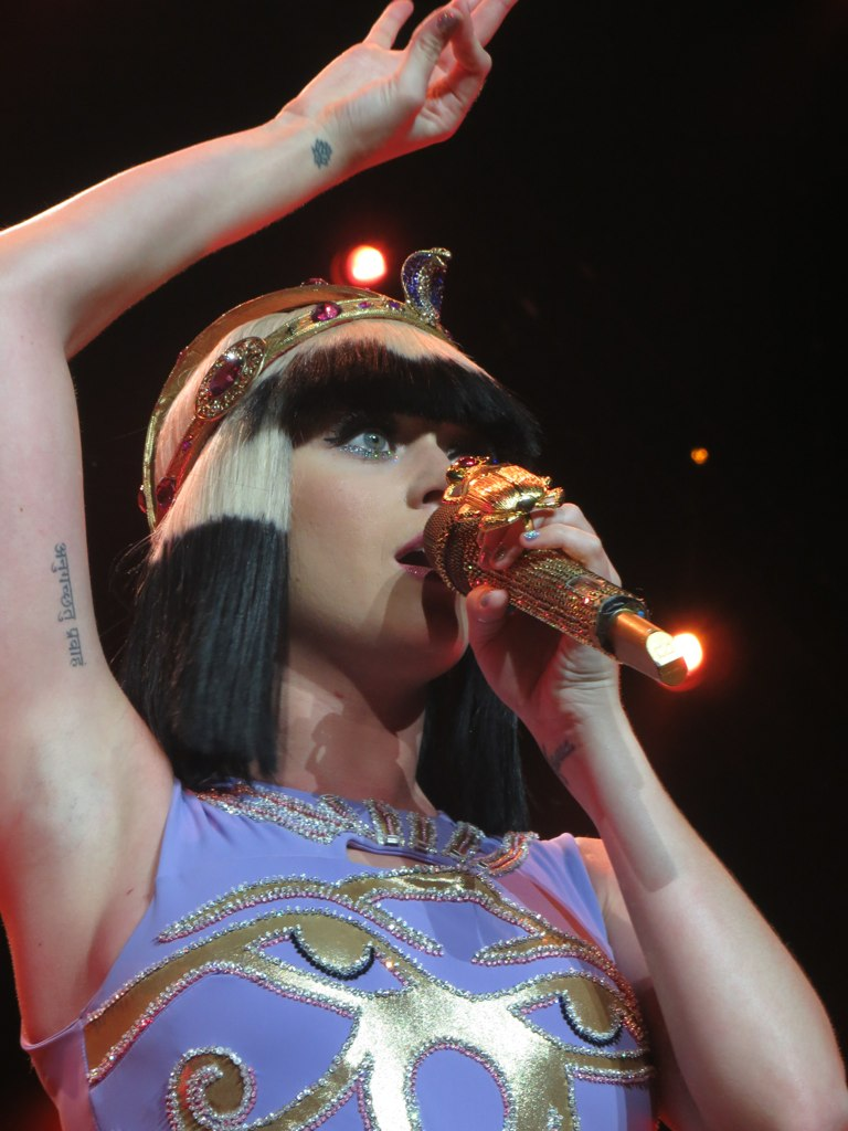 Katy Perry performing "Dark Horse", The Prismatic World Tour, Glasgow SSE Hydro 17 May 2014